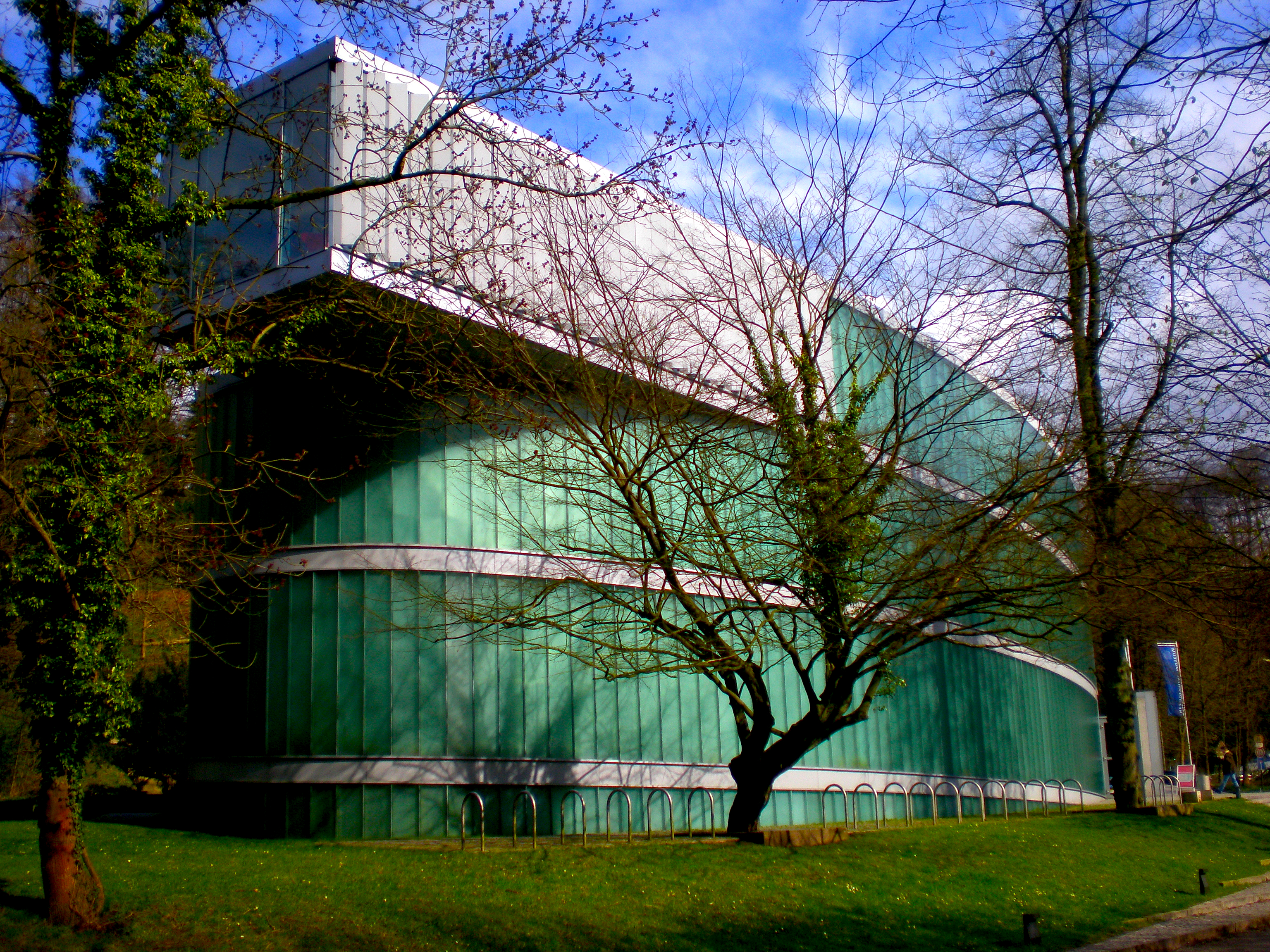 This is the Neandertal Museum just outside of Düsseldorf. It is down the street from where the first Neandertal discovery was made.